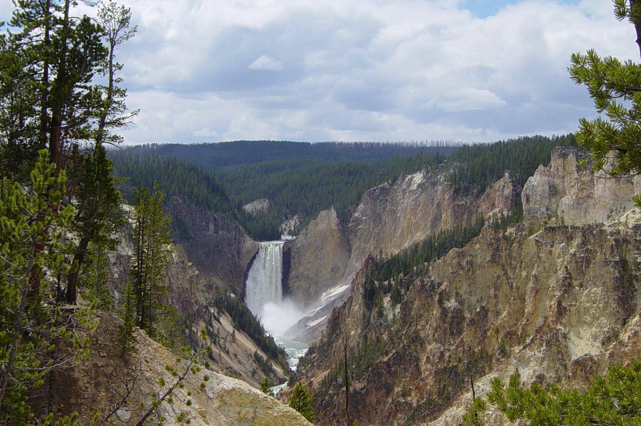 Photo taken in the Yellowstone area.